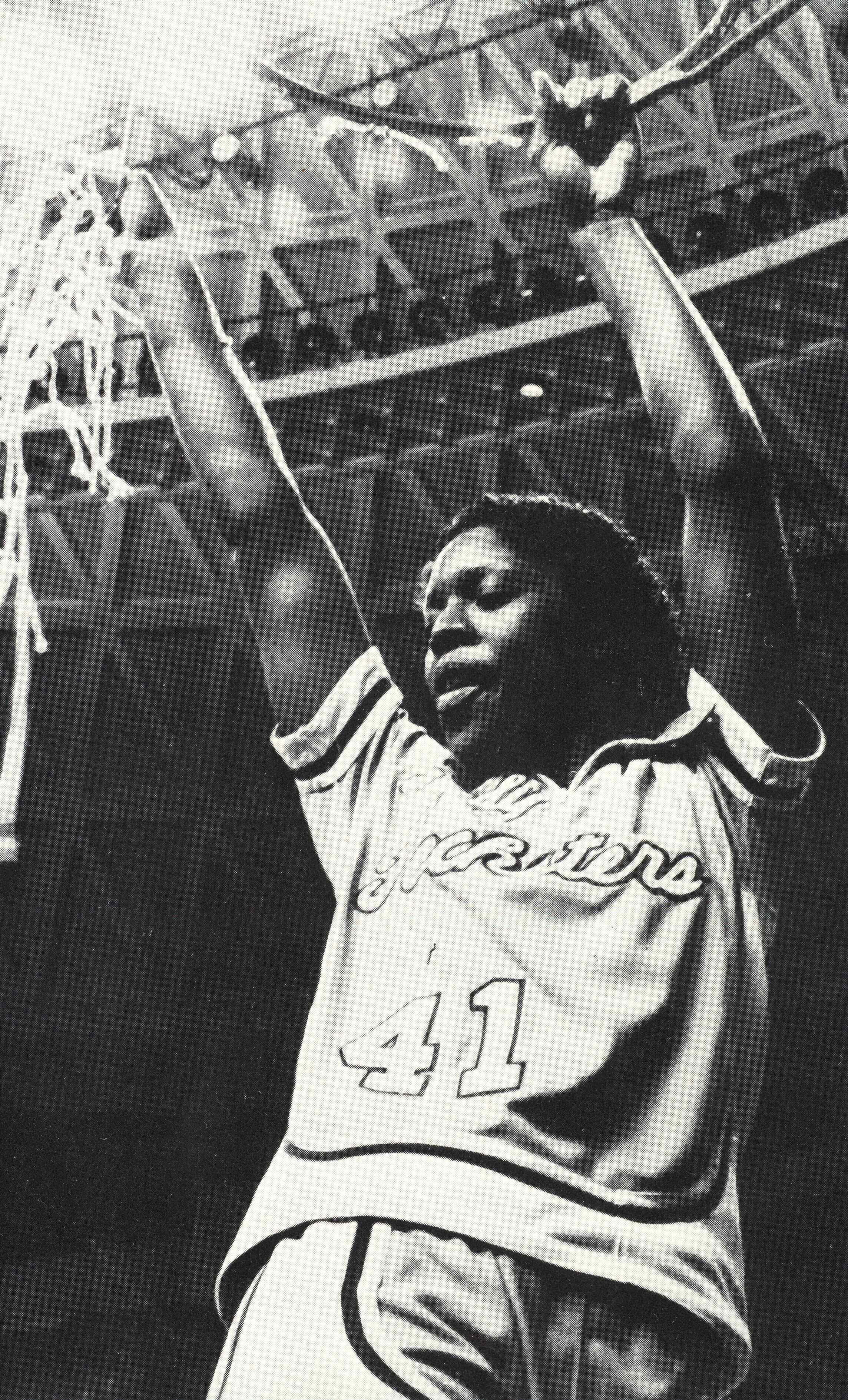 Pam Kelly, Center for Louisiana Tech, 1978–1982. All-time leading scorer for La. Tech with 2979 points. Winner of the Wade Trophy. Pictured here cutting down the nets after the 1982 NCAA Women's Basketball Tournament Championship win. (File name as supplied: wbb championship 82 8)